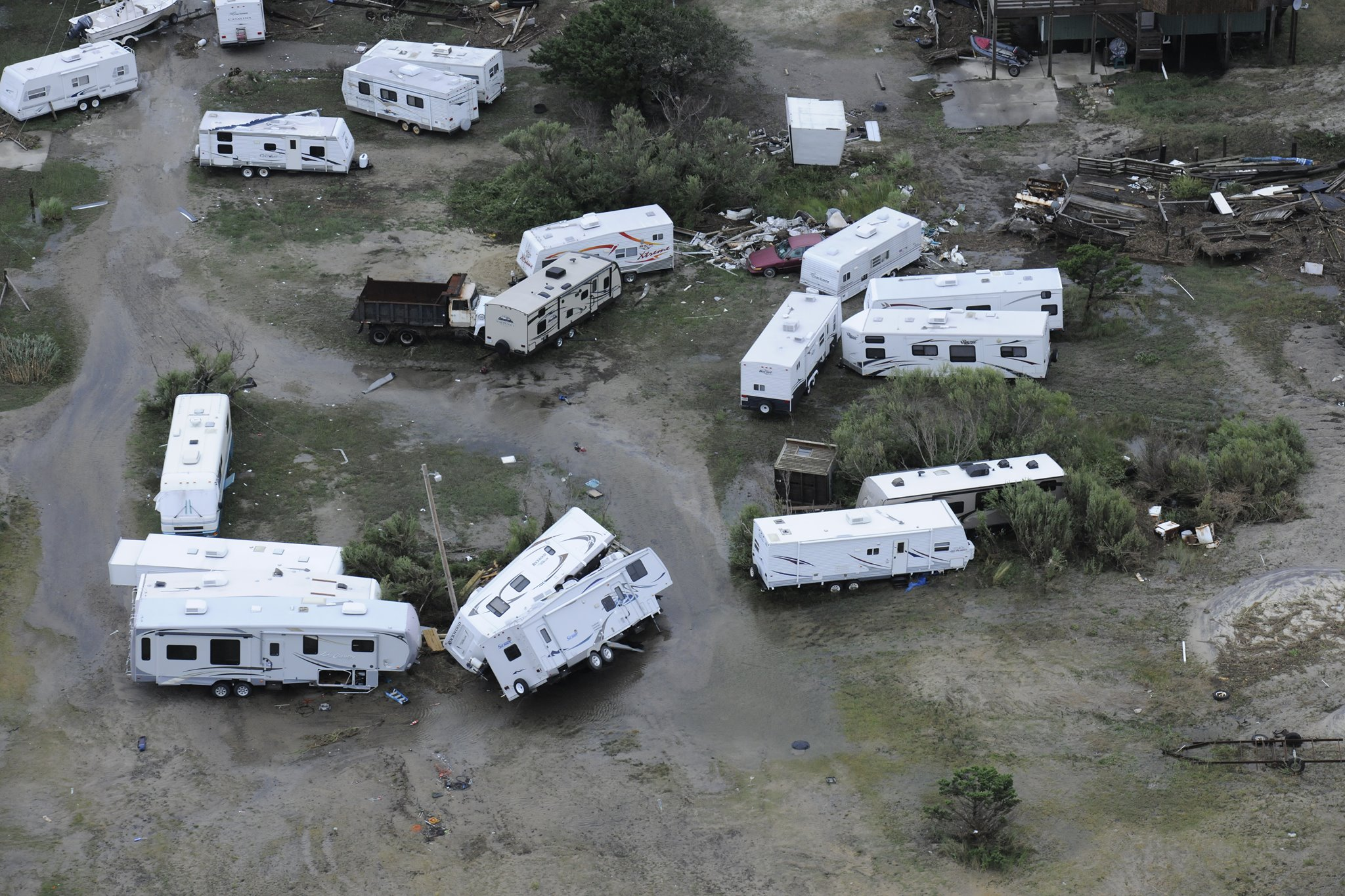 Damage to mobile homes in North Carolina following the passage of Hurricane Arthur.